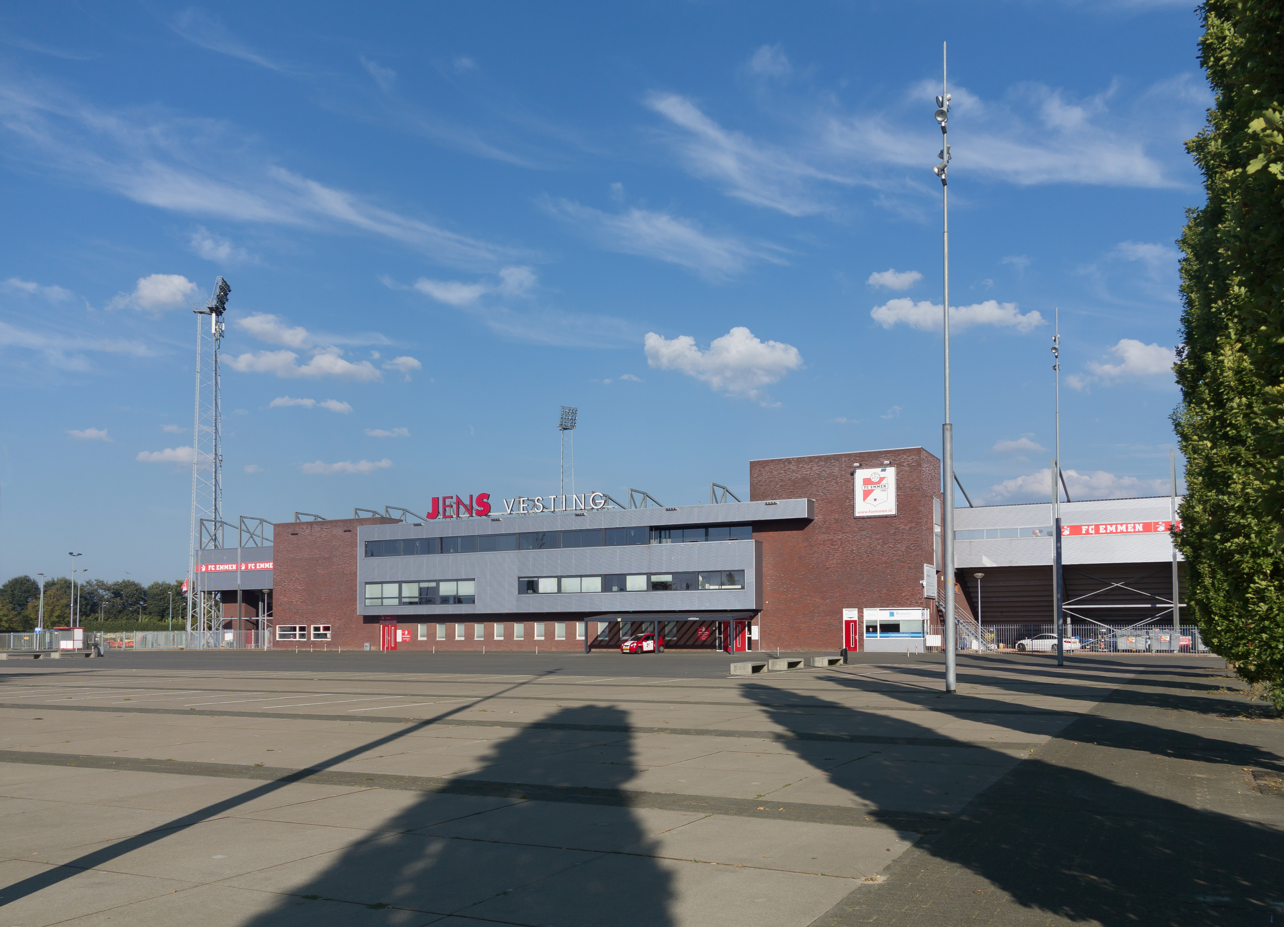 Emmen, football arena: de Jensvesting